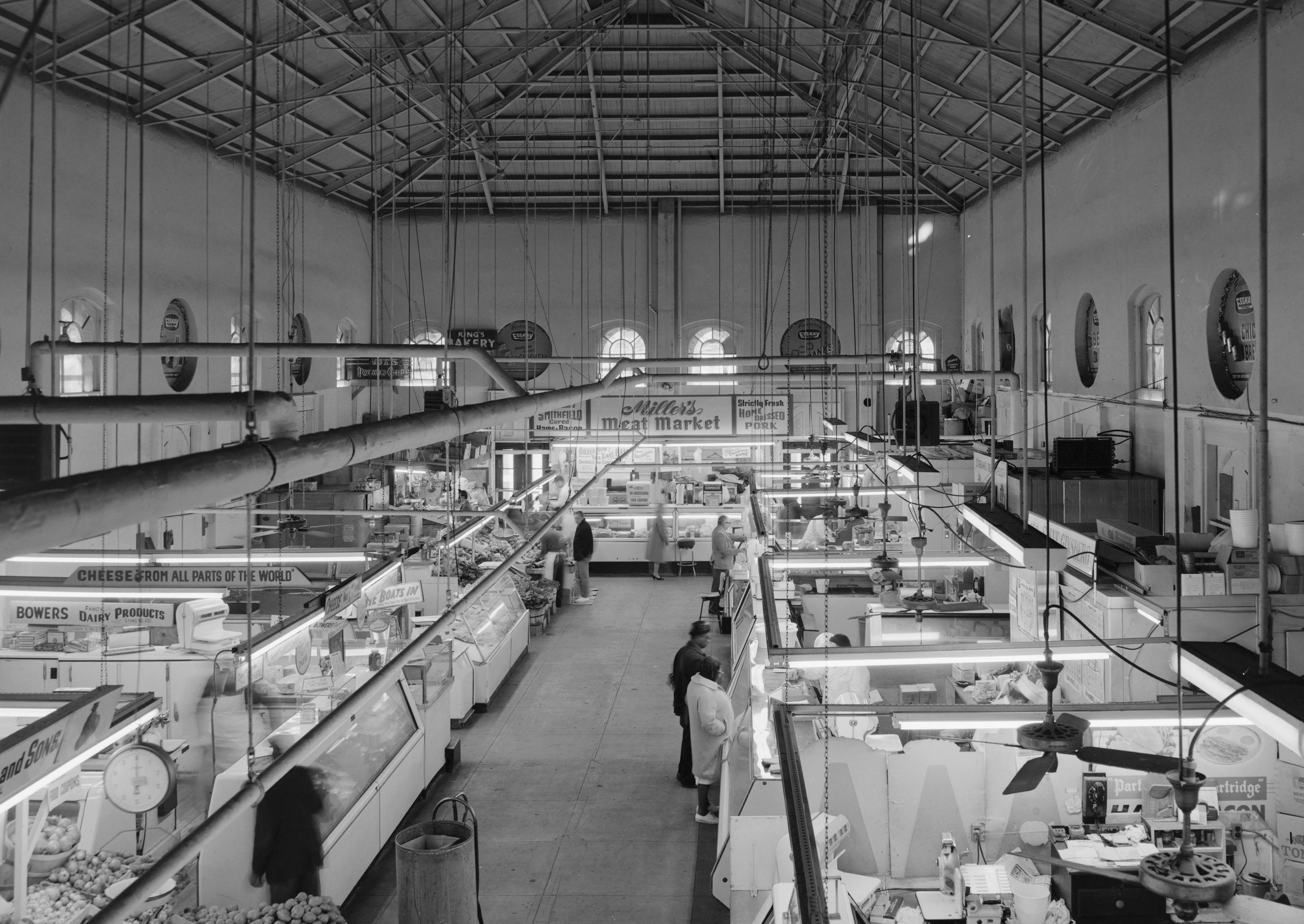 10. INTERIOR, LOOKING SOUTH - Eastern Market, Seventh Street Southeast, Washington, District of Columbia, DC